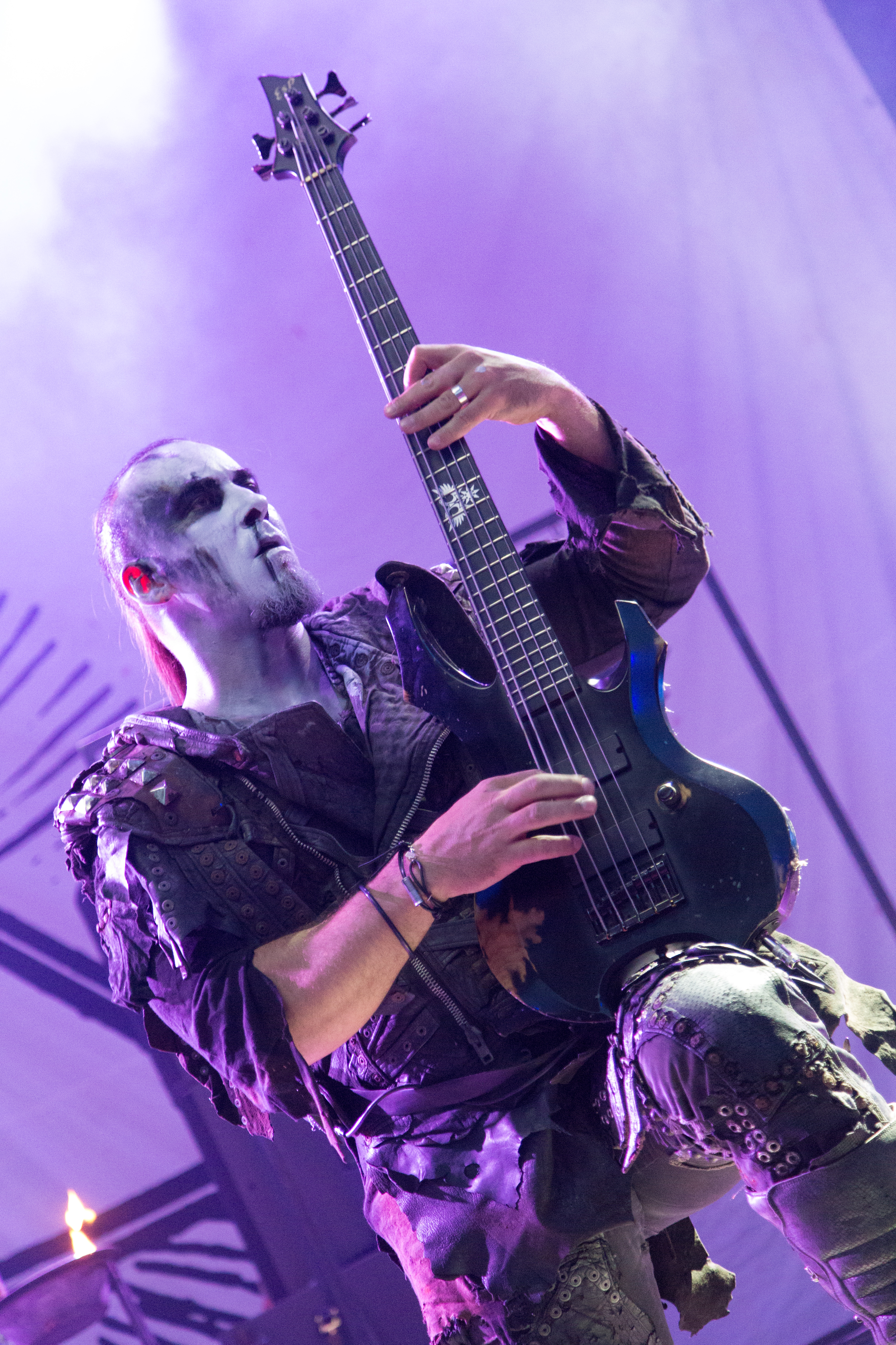 Behemoth performing live at Rock Hard Festival 2017, Gelsenkirchen, Germany